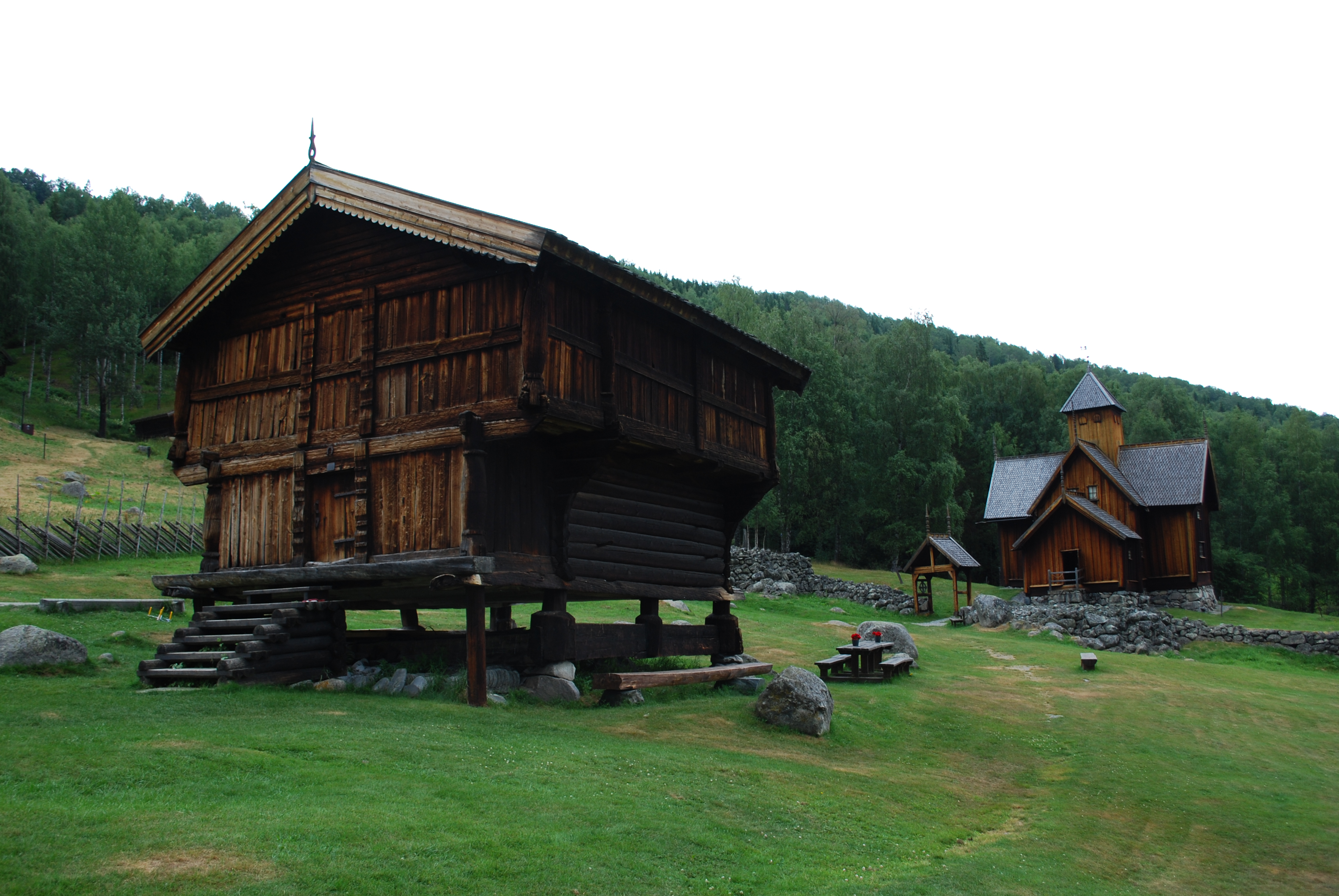 Stabbur from the old rectory in Uvdal open-air museum and stave church on the back